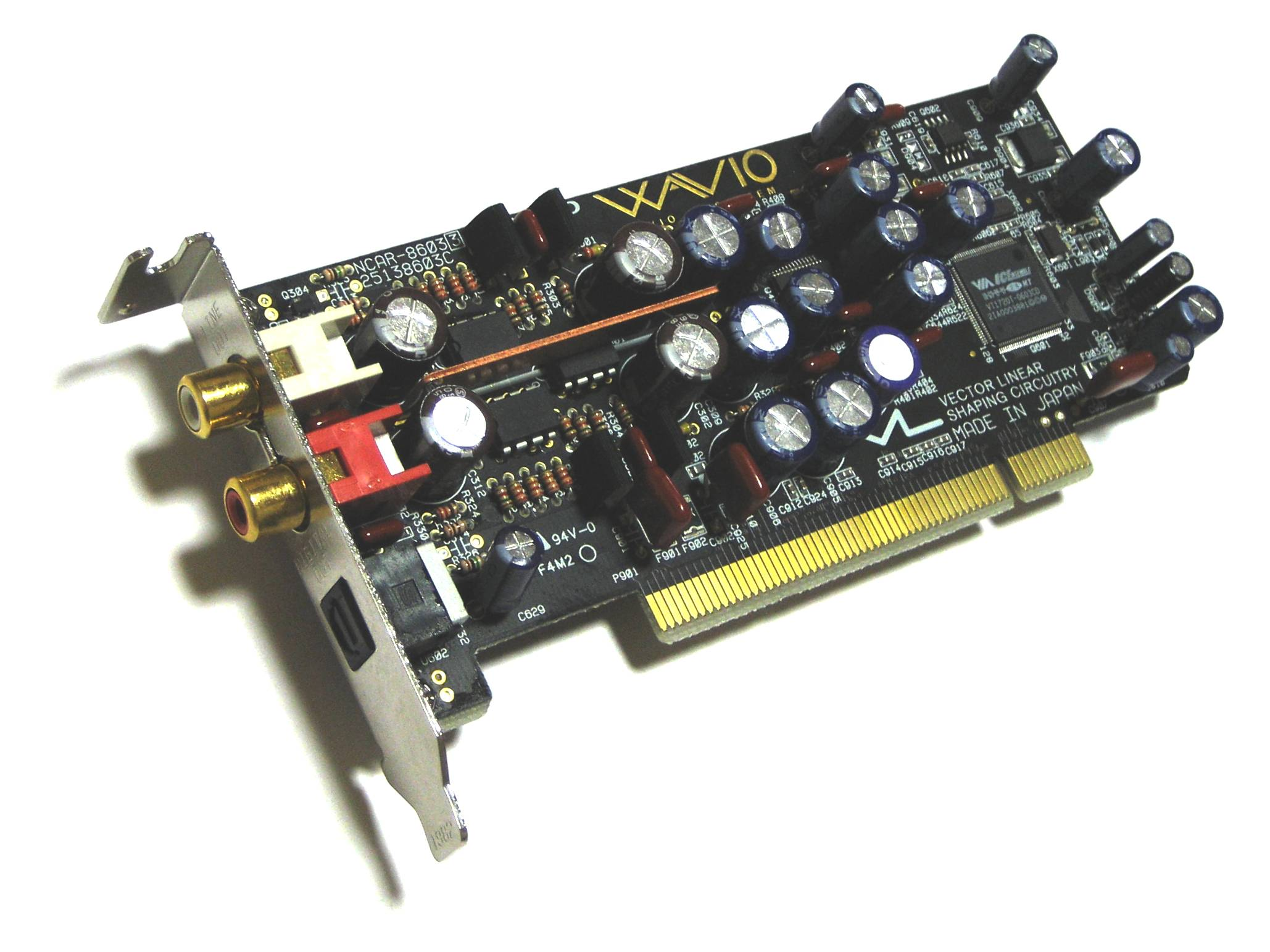 Onkyo Wavio SE-90PCI is a sound card that was pursued Hi-Fi audio playing back. It can install in small form factor computers' low-profile PCI.